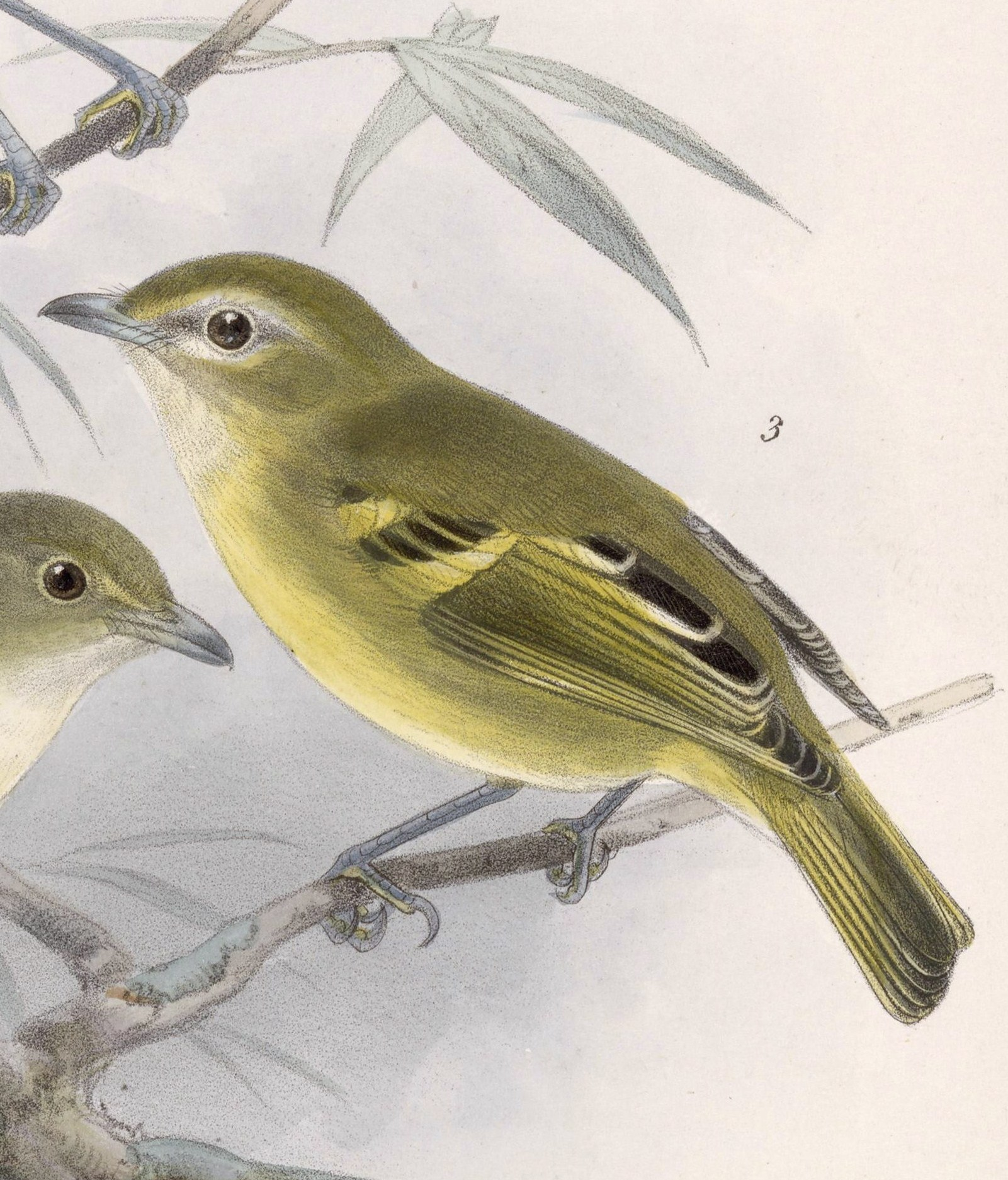 « Vireo carmioli » = Vireo carmioli (Yellow-winged Vireo)